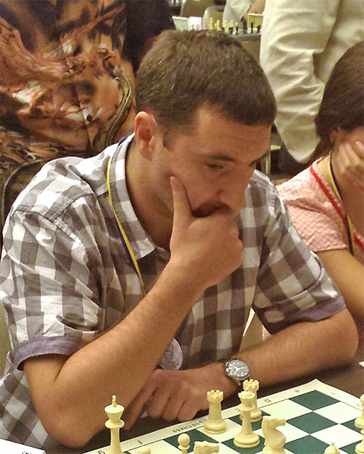 Artiom Tsepotan is playing at the Chess Kharkiv City Day 2016